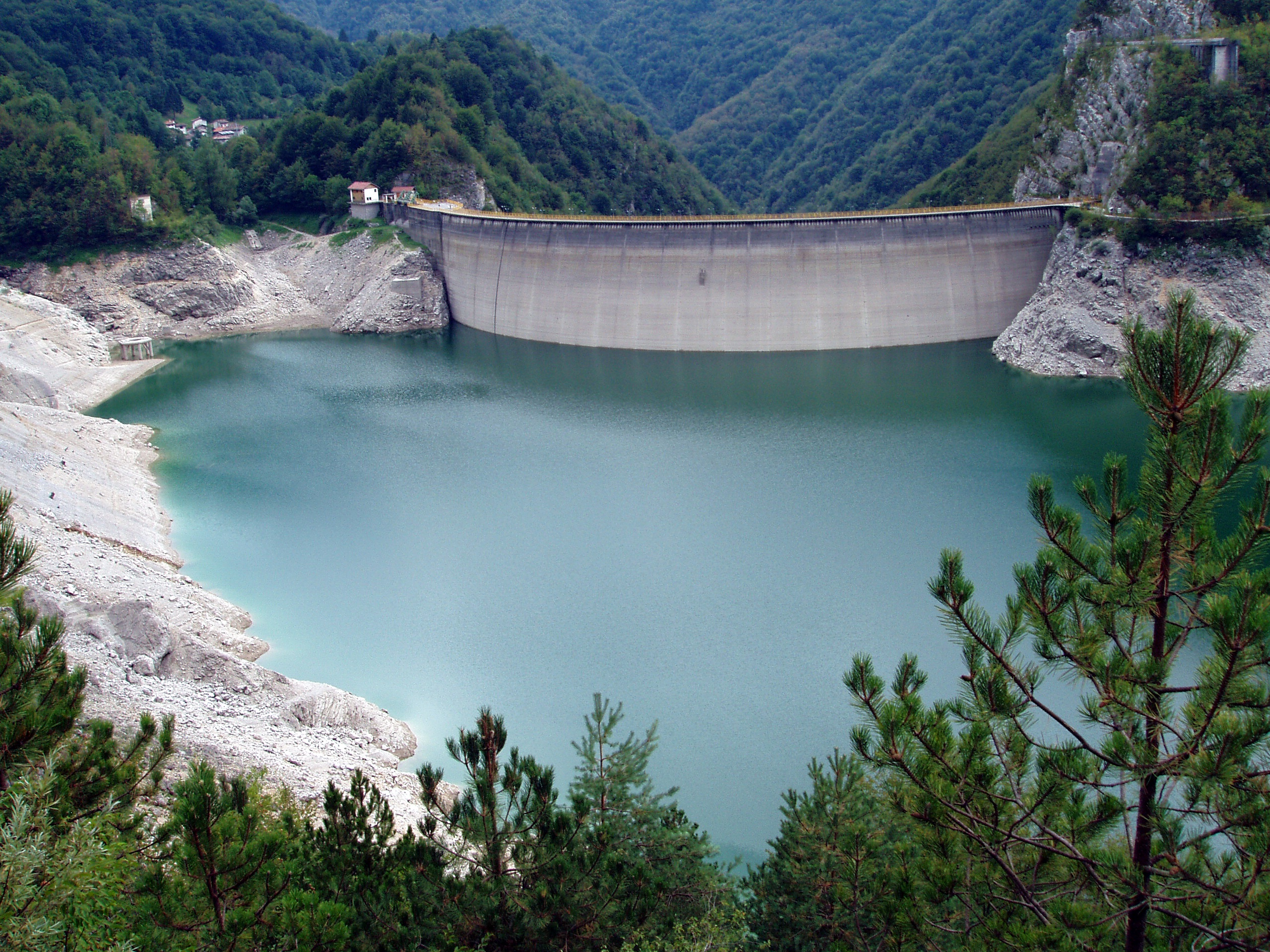 Cà Selva Dam, near Tramonti di Sopra, province of Pordenone, Italy